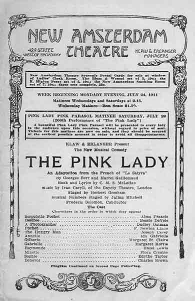 Theatre program for The Pink Lady, dated 1911, by Ivan Caryll